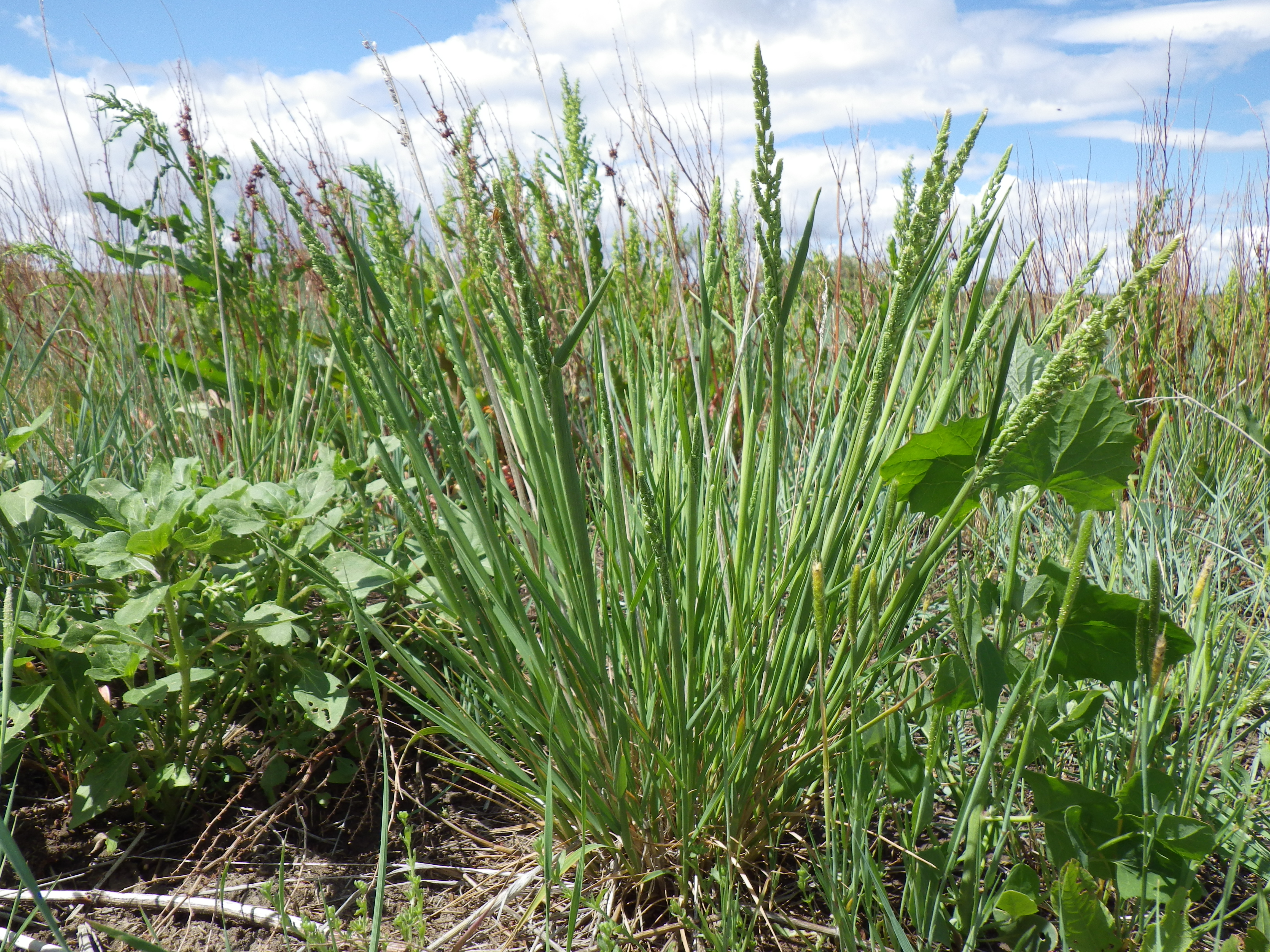 Beckmannia typically inhabits settings with standing water but also this grass inhabits low lying areas where water collects for at least part of the year, as in these low pastures that receive water from "spreader dikes."